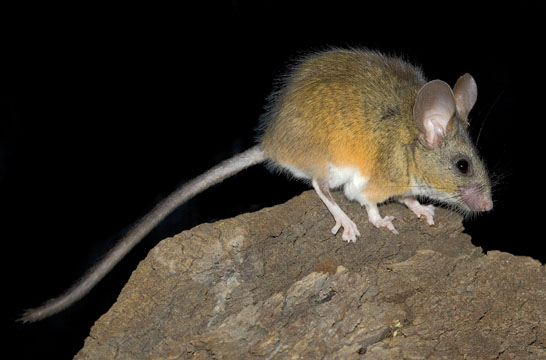 Peromyscus californicus photographed in a lab setting at the University of California, Riverside